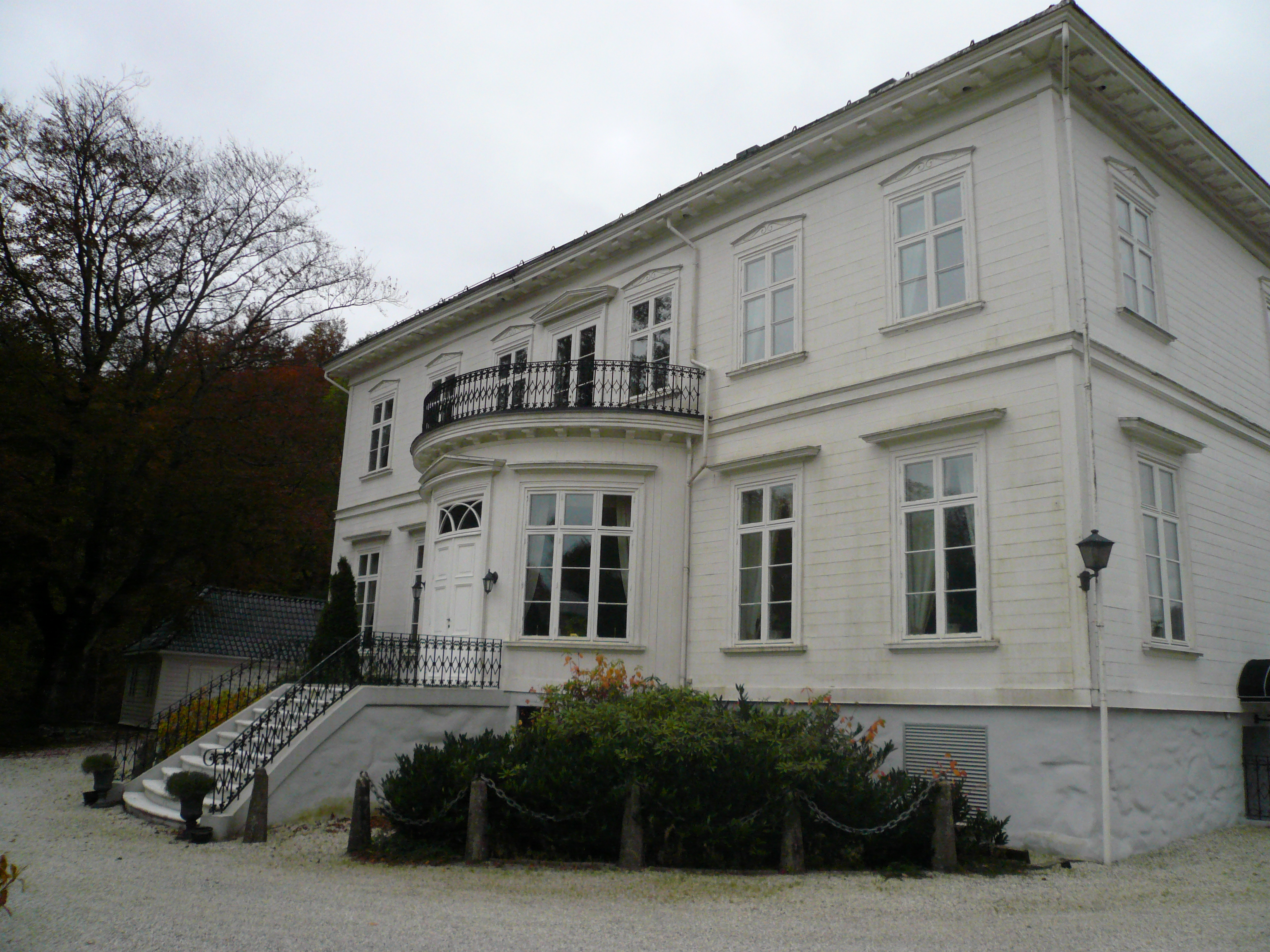 Kommandantboligen, Gravdal, Bergen, Norway.